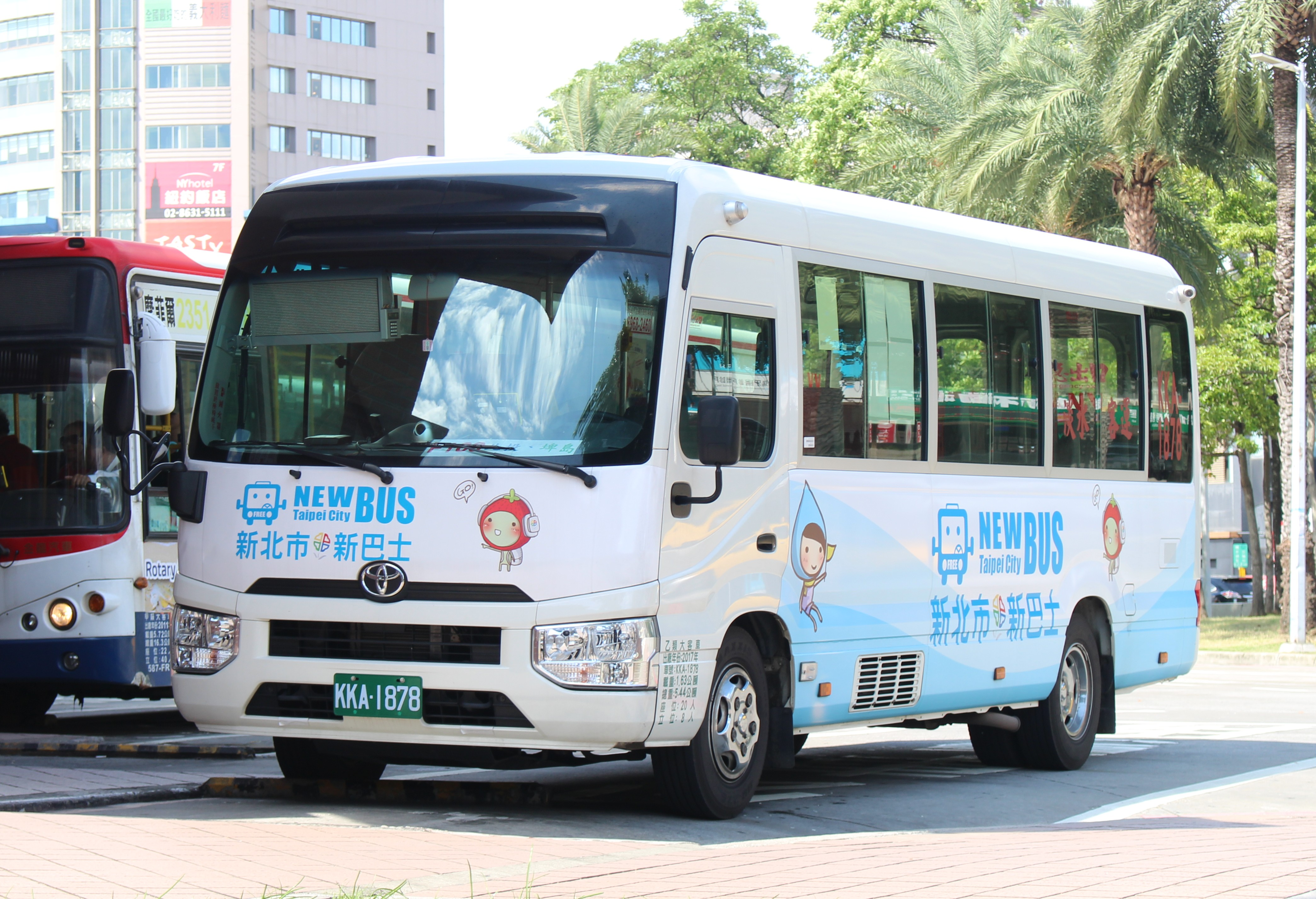 2017 Toyota Coaster XZB70L